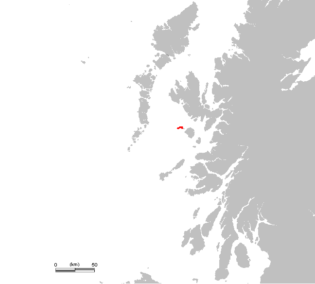 UK Canna.PNG (Scotland, Hebrides)